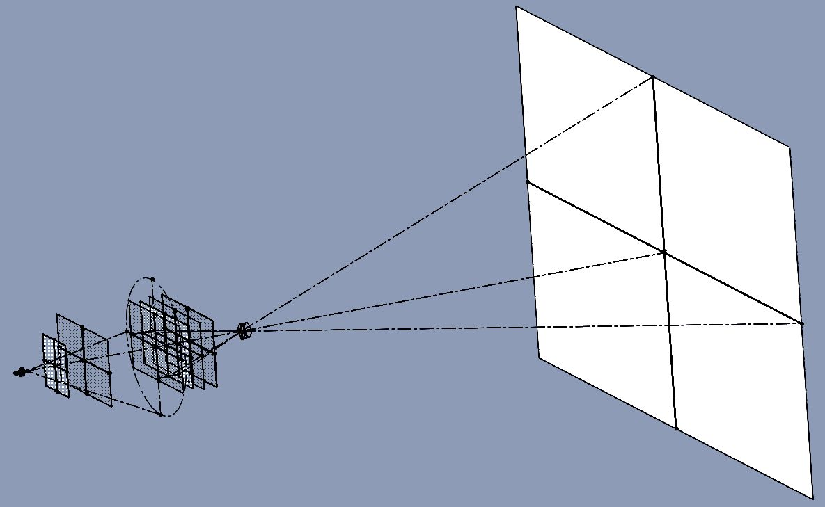 GNU open source project for a mono-LCD projector construction